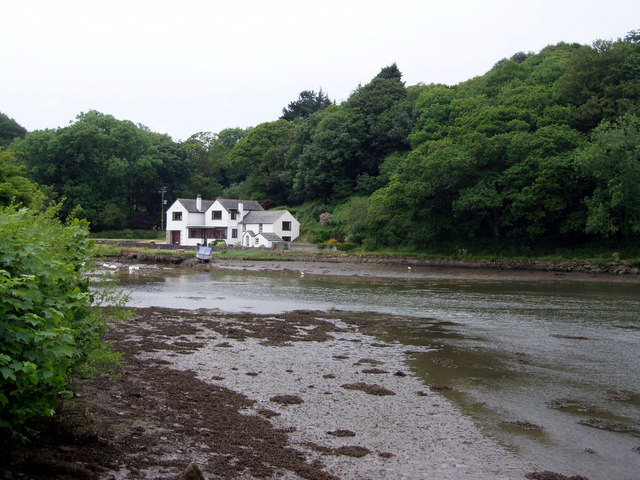 Gillan Creek. The head of Gillan Creek just east of Manaccan.